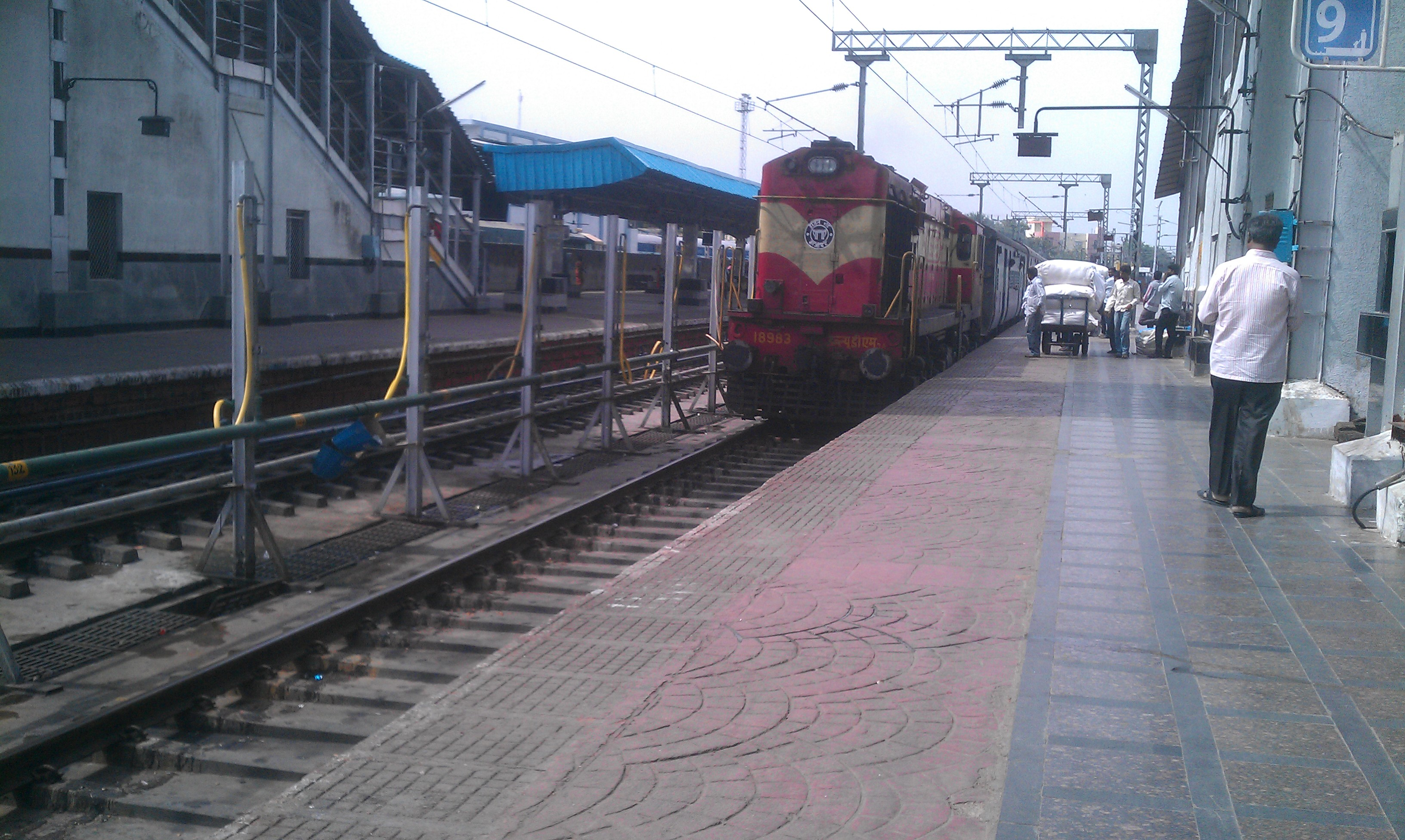 Rajkot Express (17017) completing its journey at Secunderabad railway station in Hyderabad, India.